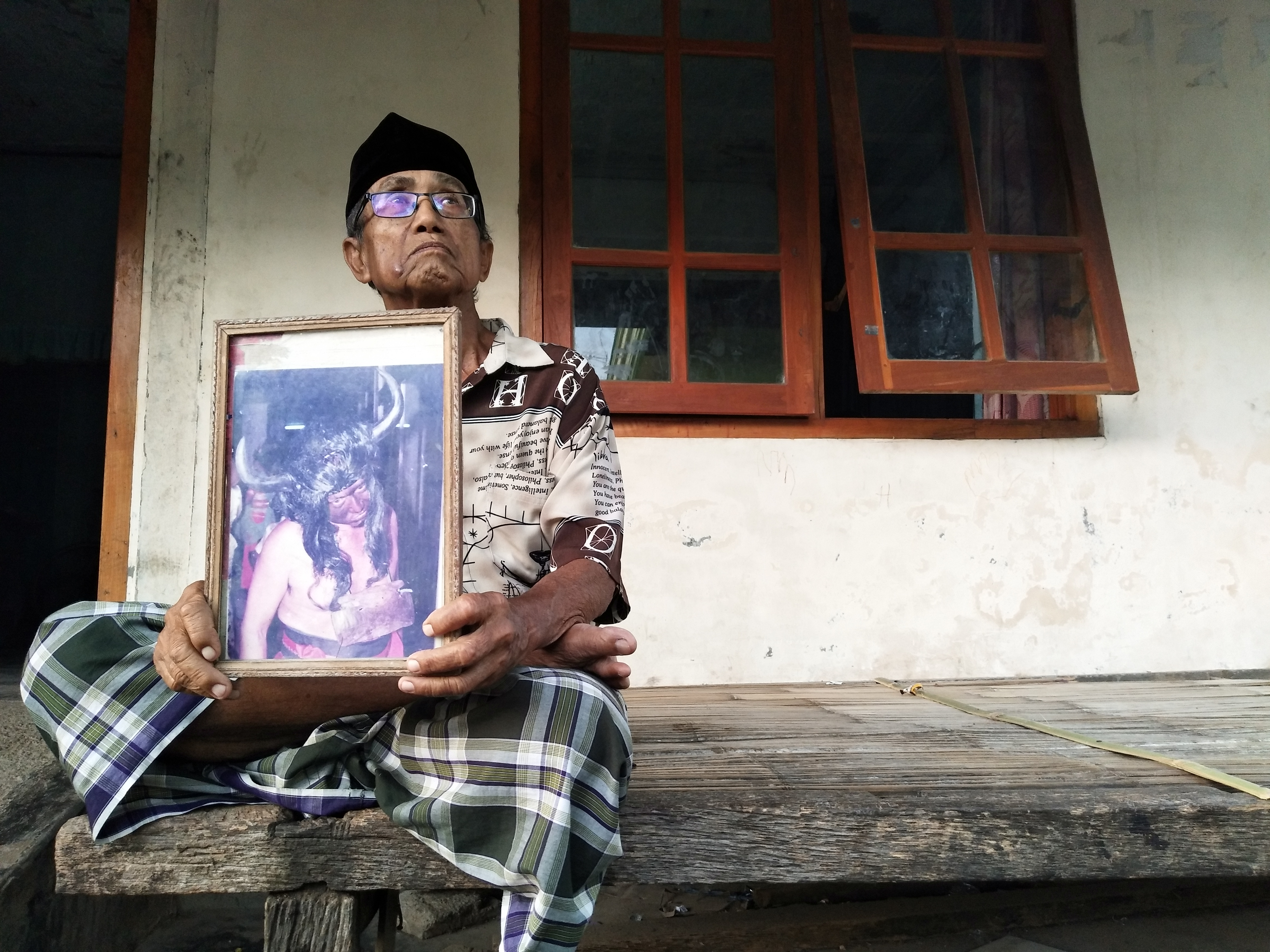 Kebo-keboan figure, Banyuwangi Sacred Tradition. Mbah (Mr) Muradji (75) is a preserver of the Kebo-keboan Tradition in Alasmalang Village, Banyuwangi Regency. When asked when the reason was active in preserving the art tradition, he explained that, the tradition he lived since 1960 is a hereditary cultural heritage of his great-grandfather, Buyut Karti (late) who was the founder of the tradition of kebo-keboan in the area in the early 18th Century AD . . "In 1994, I was a representative of Banyuwangi Regency in the East Java Cultural Week, which was then located in Jember Regency, East Java. In the National event, Thank God I was able to refute Banyuwangi Regency by successfully entering as the Top 10 Best Local Culture in Indonesia. " He continued by showing photos when acting out the kebo-keboan. At present the tradition is continued by her children.